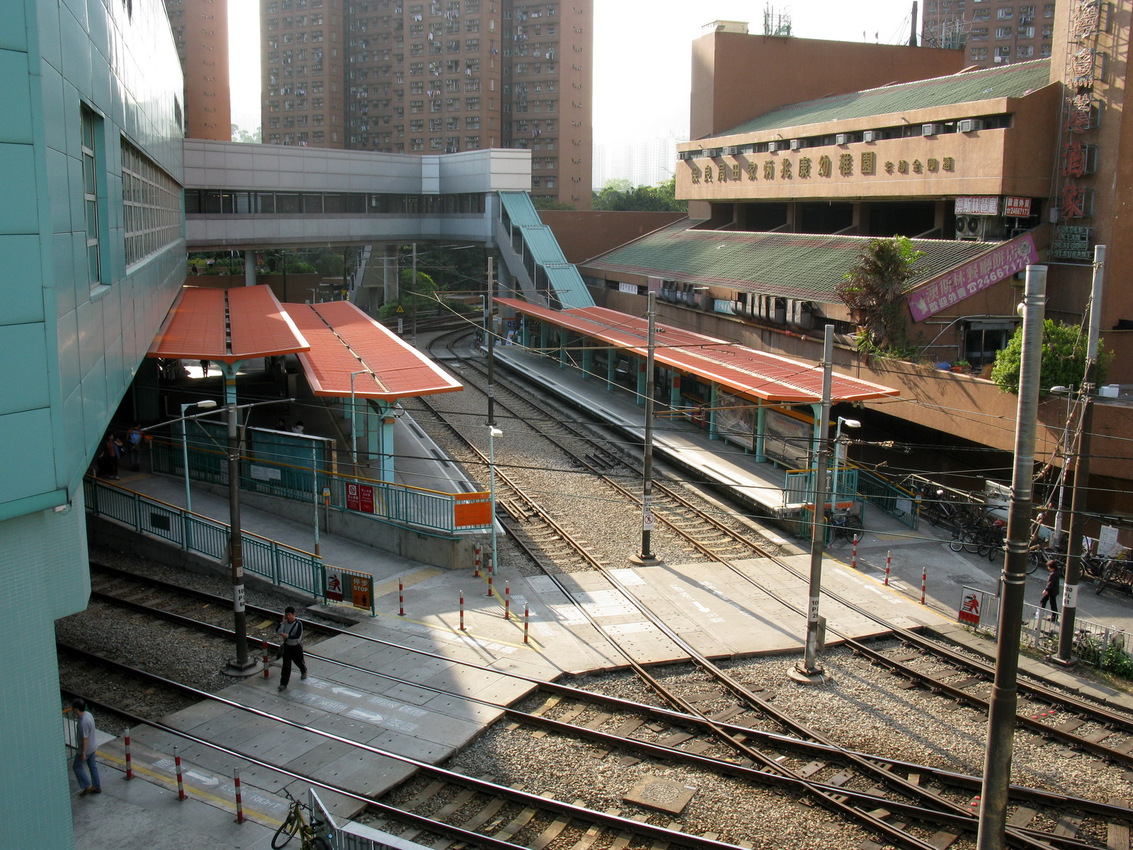 輕鐵 兆康站 3號及4號月台 Platform 3 & 4 of Siu Hong Stop, Light Rail